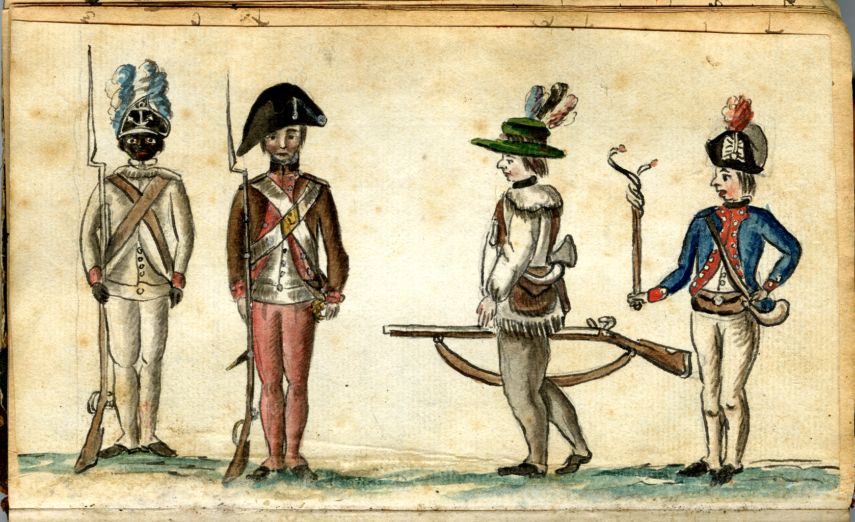 American soldiers at the siege of Yorktown, by Jean-Baptiste-Antoine DeVerger, watercolor, 1781